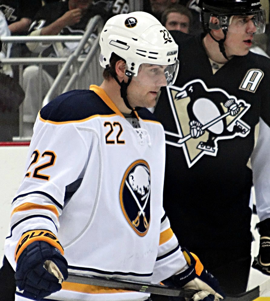 Buffalo Sabres forward Johan Larsson skates against the Pittsburgh Penguins, October 5, 2013, at Consol Energy Center in Pittsburgh, PA.